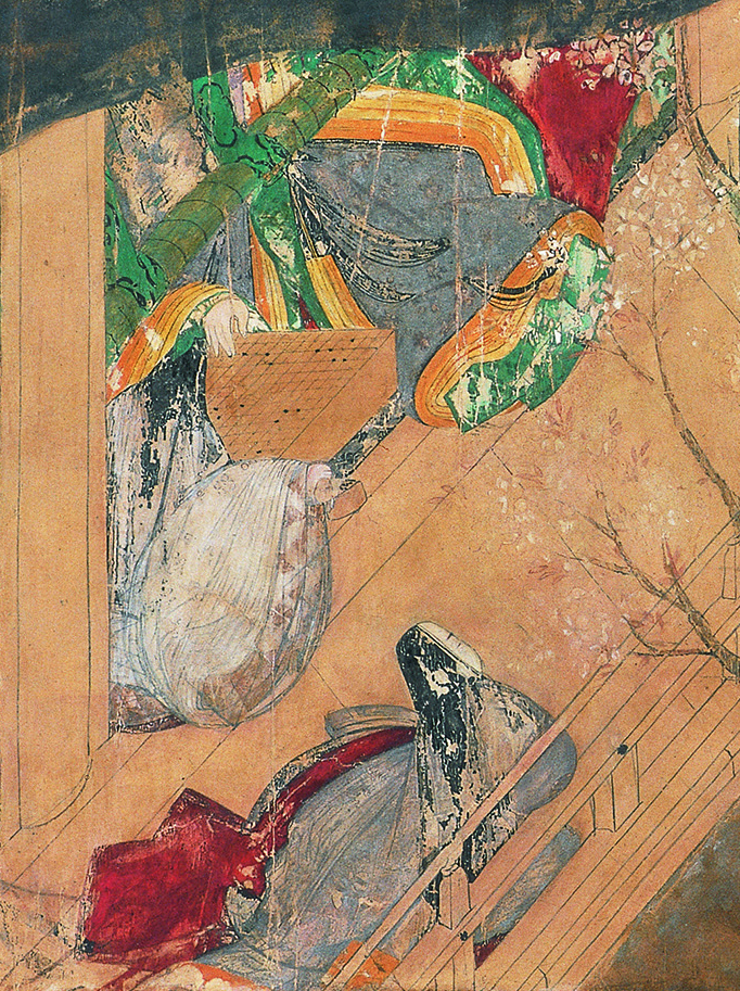 A Detail of a scene of the Chapter "TAKEKAWA "(Bamboo River) of Illustrated handscroll of Tale of Genji (written by MURASAKI SHIKIBU(11th cent.). color on paper, height 21.8cm, The handscroll was made in about ACE1130 and stored in TOKUGAWA Museum, Japan. The handscroll were separated to each sections and mounted to frame for conservation. Category: Illustrated Handscroll of The Tale of Genji (Tokugawa Art Museum)